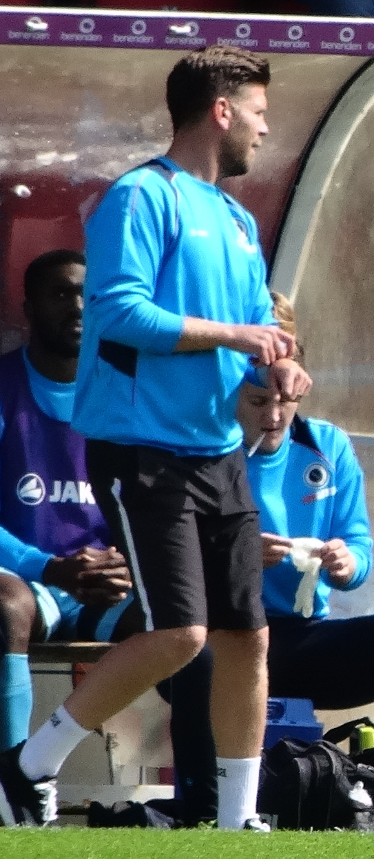 Luke Garrard during Boreham Wood's match against York City at Bootham Crescent, York on 13 August 2016